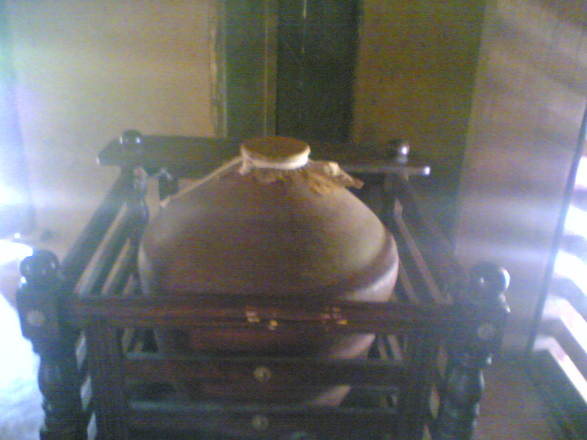 Mizhavu- the percussion instrument used for Chakyar Koothu and Kutiyattam. Author:Sreekanth V (Sreekanthv) Source:Photo is taken by Sreeraj V Attribute: Courtesy Sreeraj V